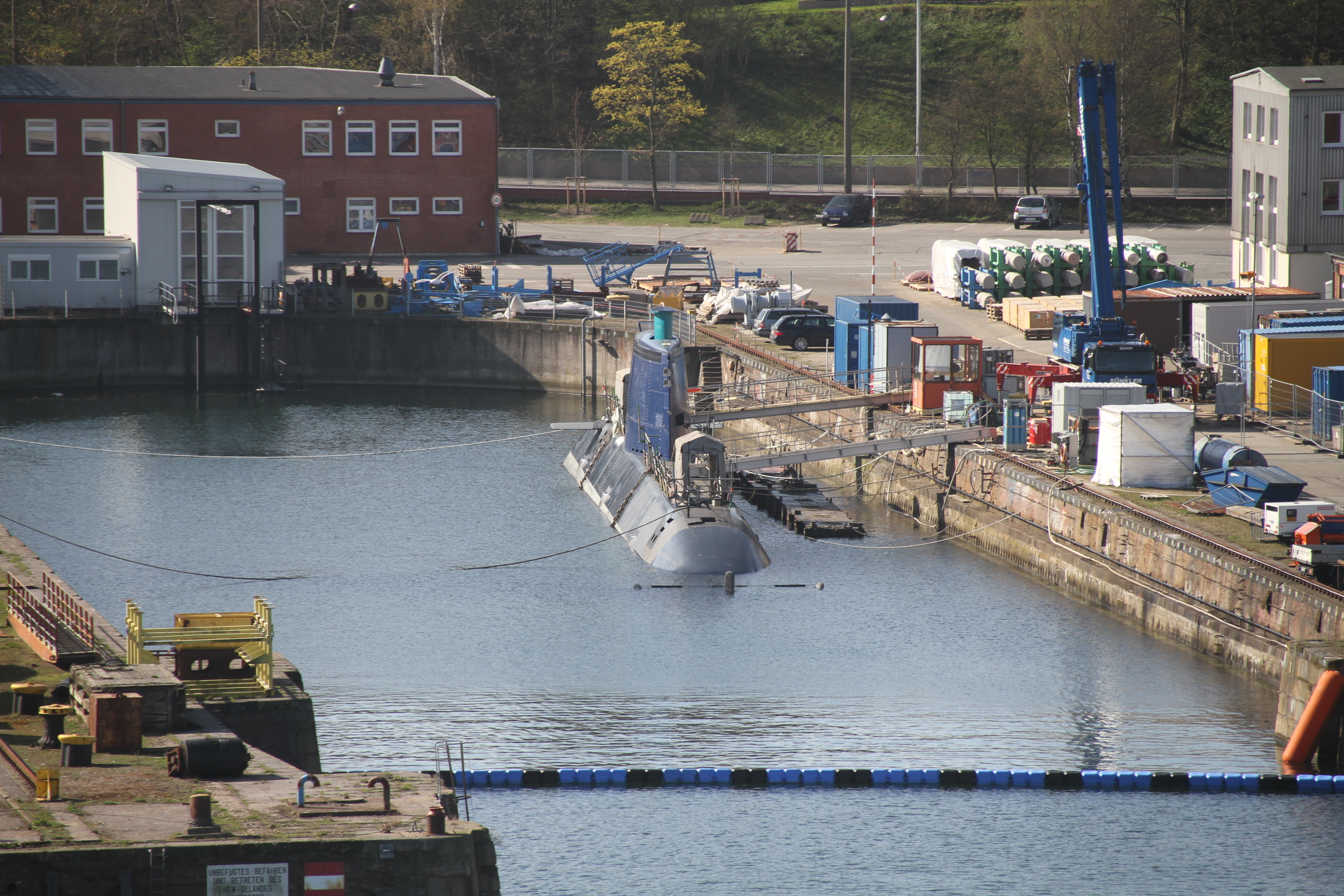 Image of the HDW shipyard, a major naval shipyard in the city of Kiel - northern Germany. HDW is an important constructor of submarines of NATO.